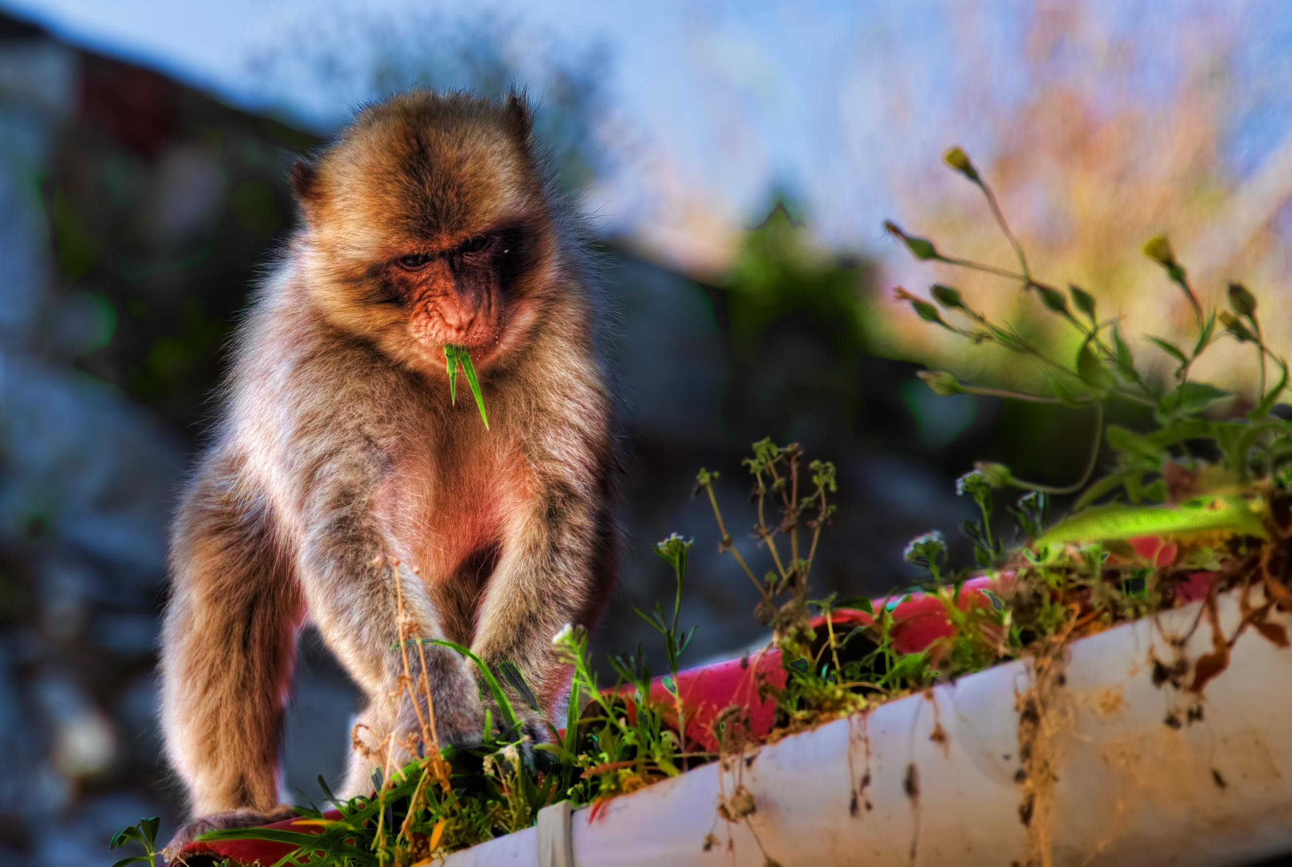 Barbary macaque on a rooftop in Gibraltar, feeding from the vegetation growing in a gutter.